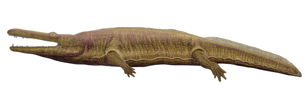 Restoration of Cyclotosaurus by Szymon Górnicki